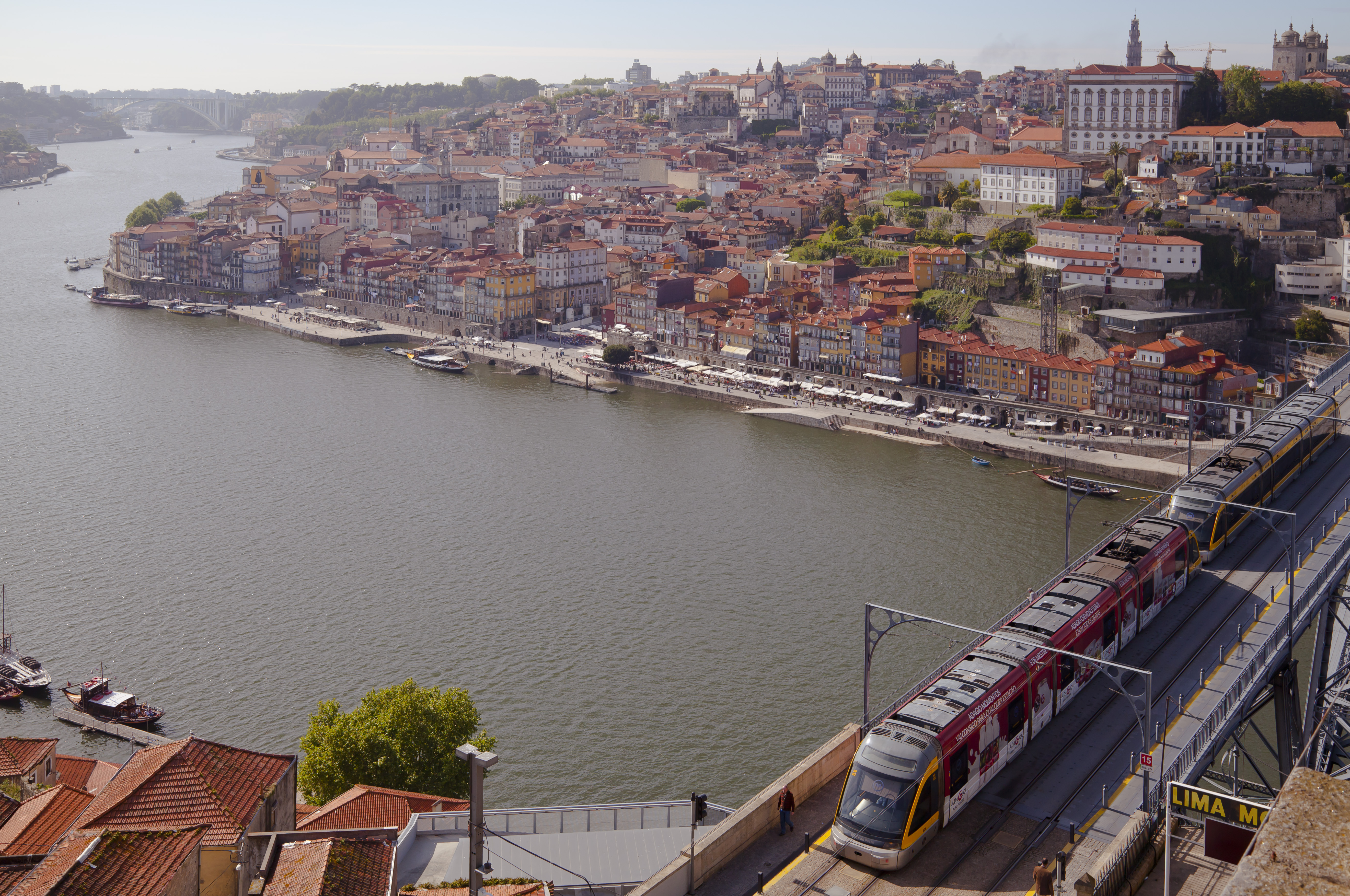 Cais da Ribeira, Porto, Portugal